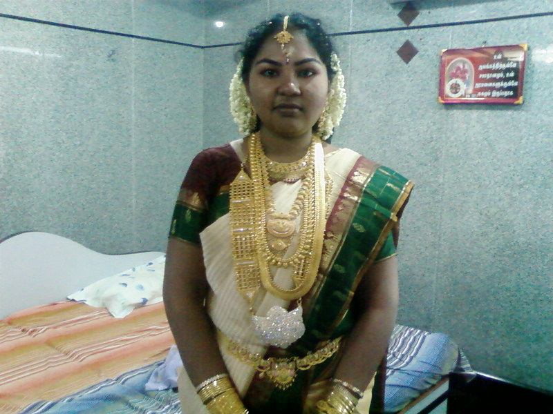 Silk sarees are worn during any tredition functions in tamilnadu.